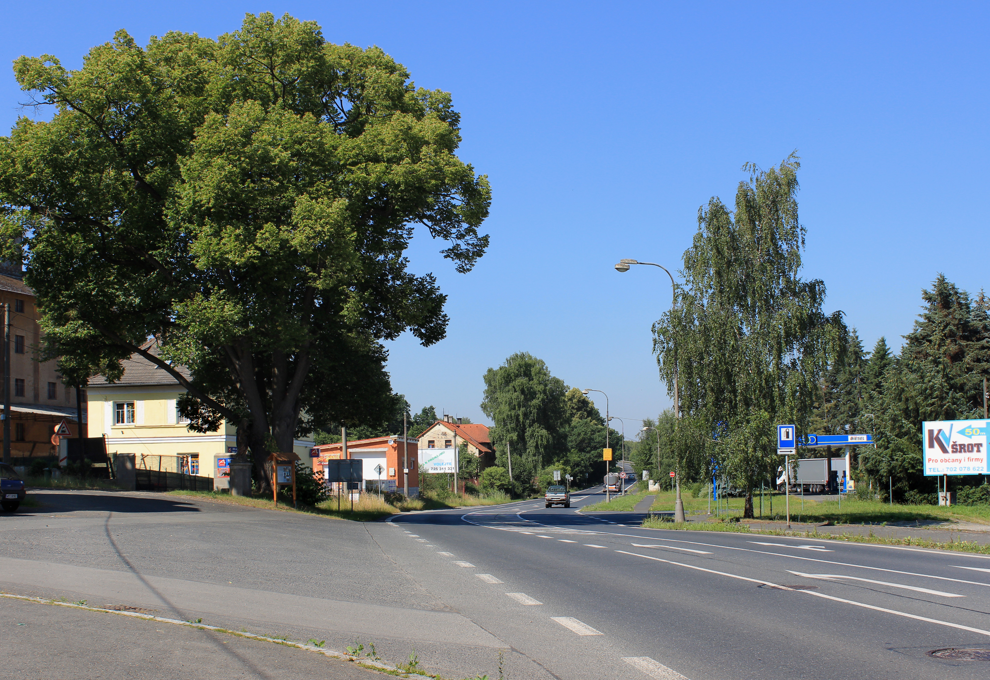 Road No 26 in Horšovský Týn, Czech Republic.